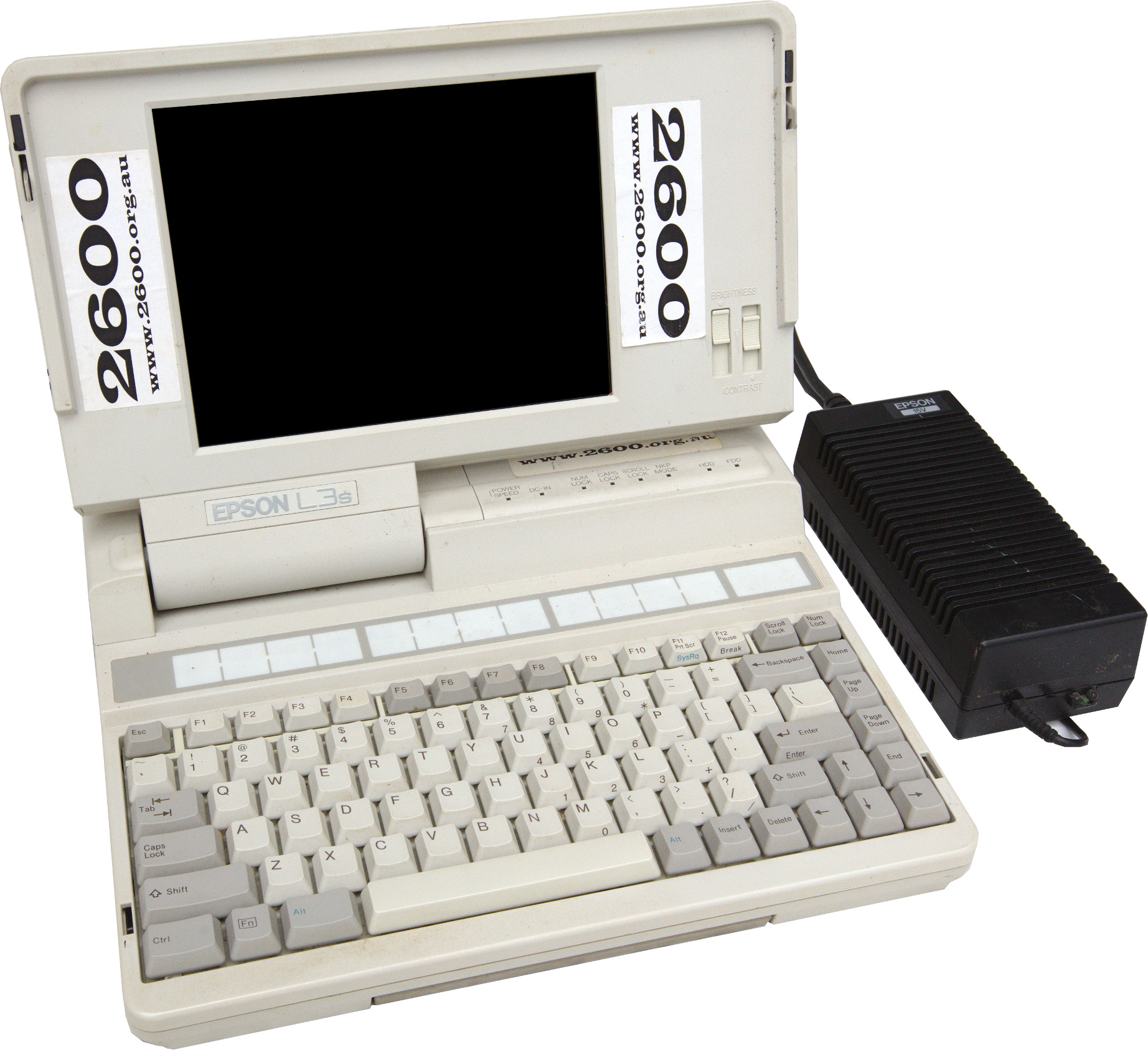 Front view of an Epson L3s laptop (open) and power supply. Note the contrast and brightness controls for the LCD screen.